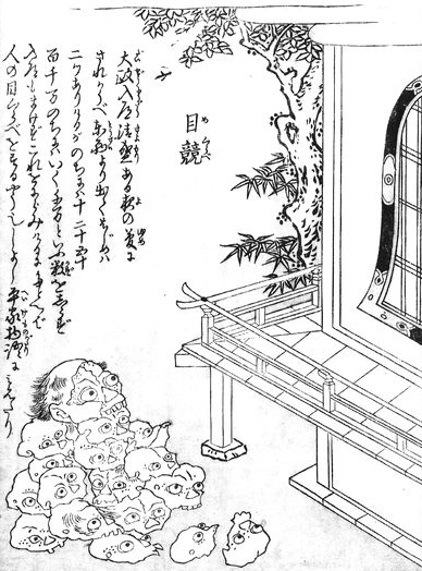 Mekurabe (目競, the multiplying skulls that menaced Taira no Kiyomori in his courtyard) from the Konjaku Hyakki Shūi (今昔百鬼拾遺)